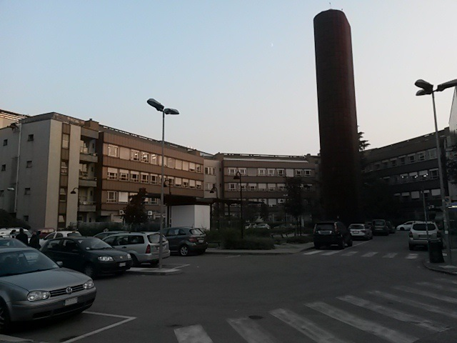 The "Omega", chemical department building in the middle of the didactic area (Settore Didattico) of the Università degli Studi di Milano (UNIMI) in Milano